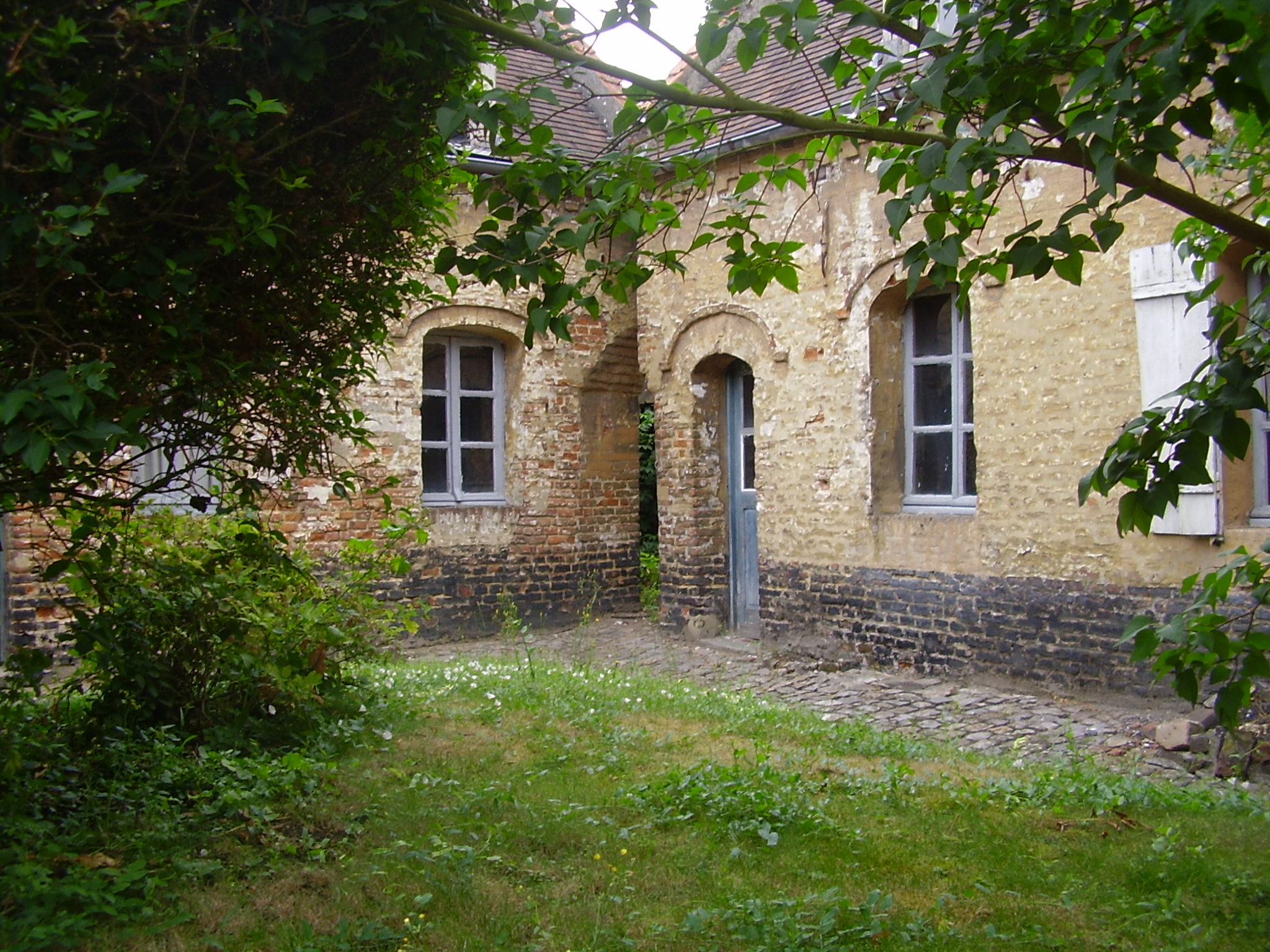 Saint-Vaast and Saint-Nicolas Beguinage in Cambrai (France)